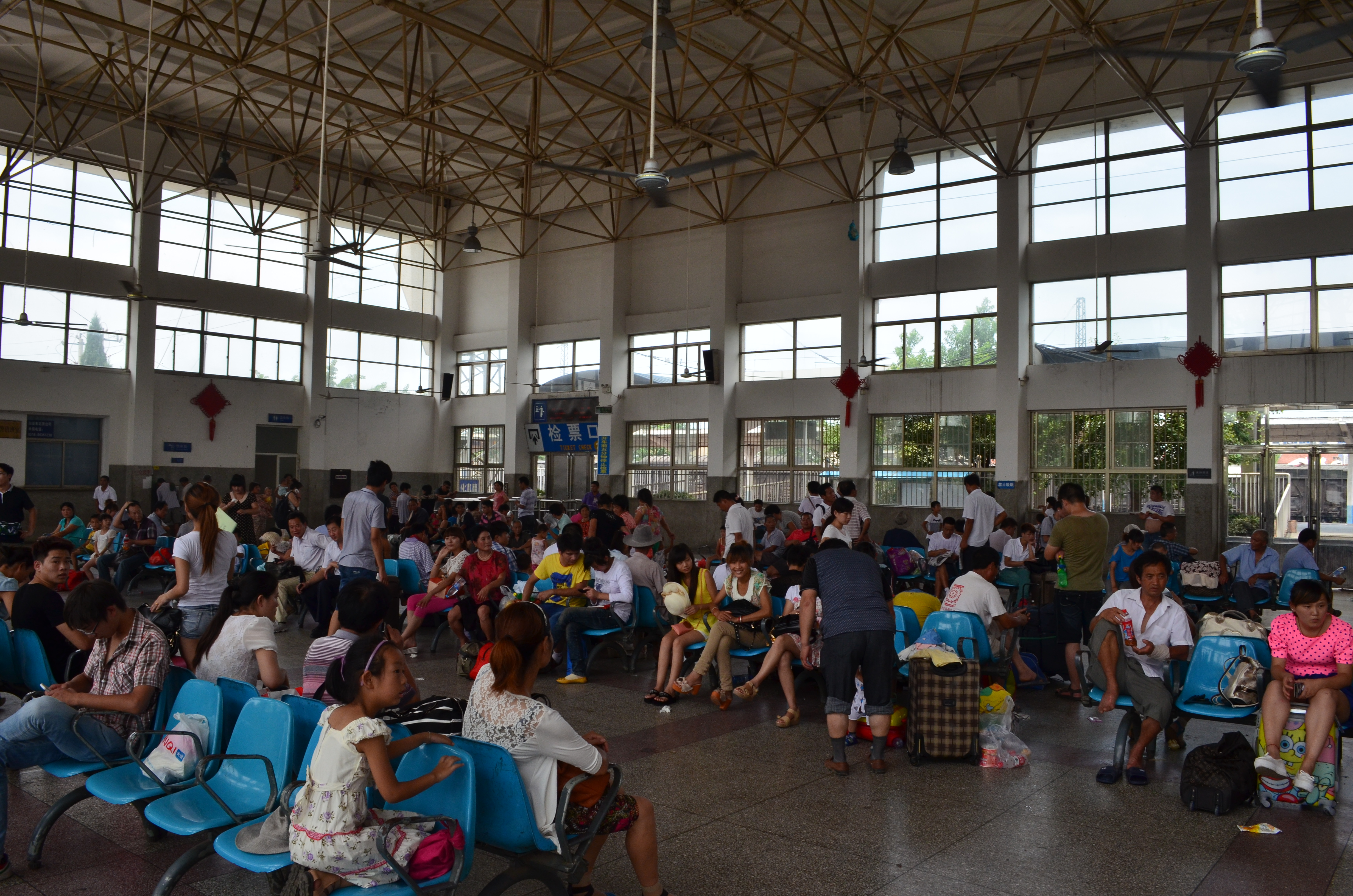 Pizhou Railway Station - inside